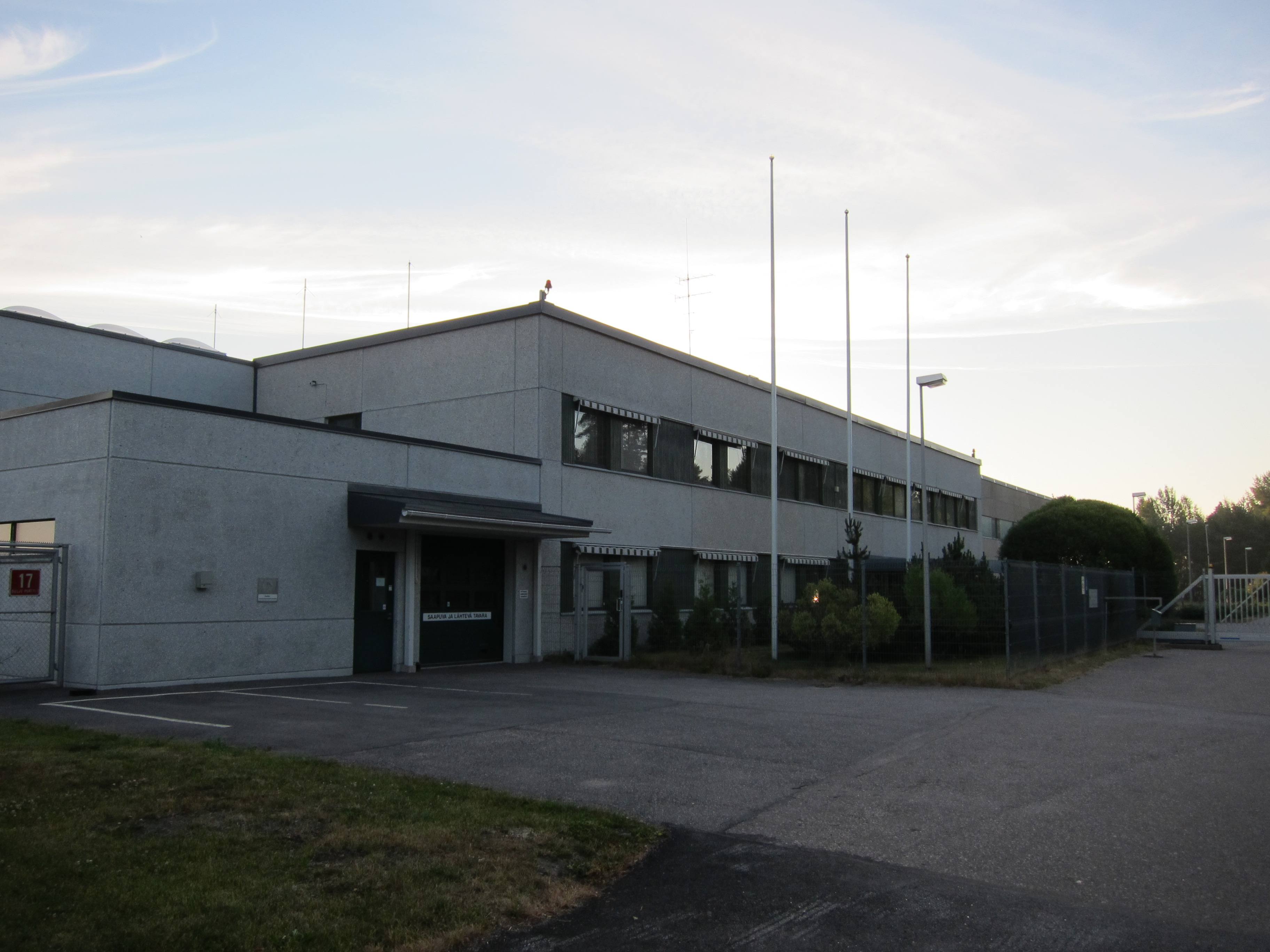 Turku Airport, Finland.